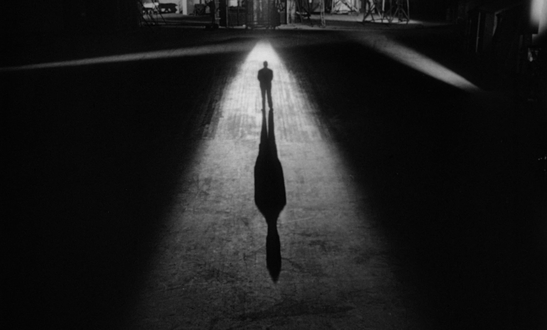 Alfred Hitchcock's The Wrong Man trailer introduction sequence